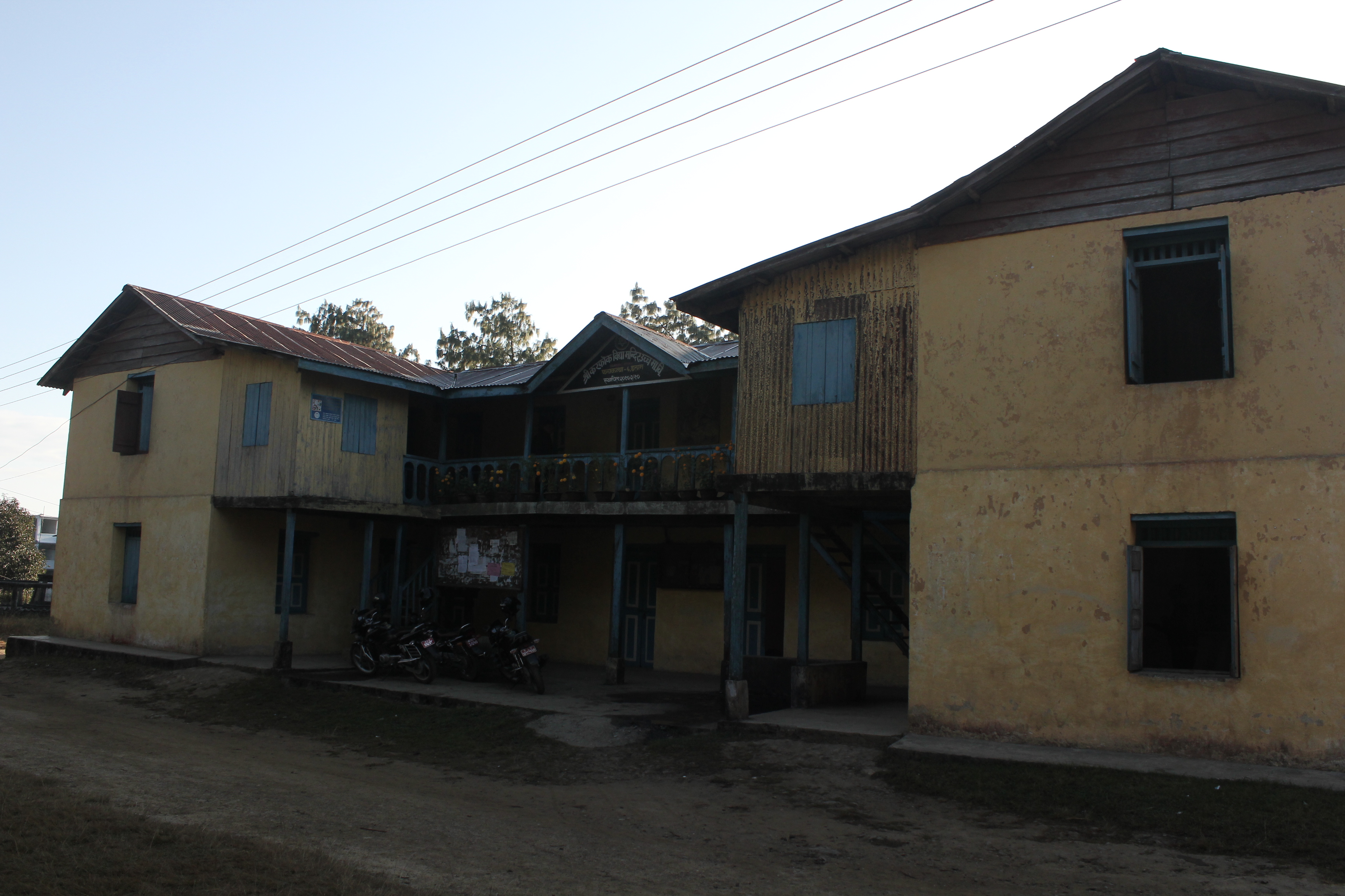 Karfok High School, Old building